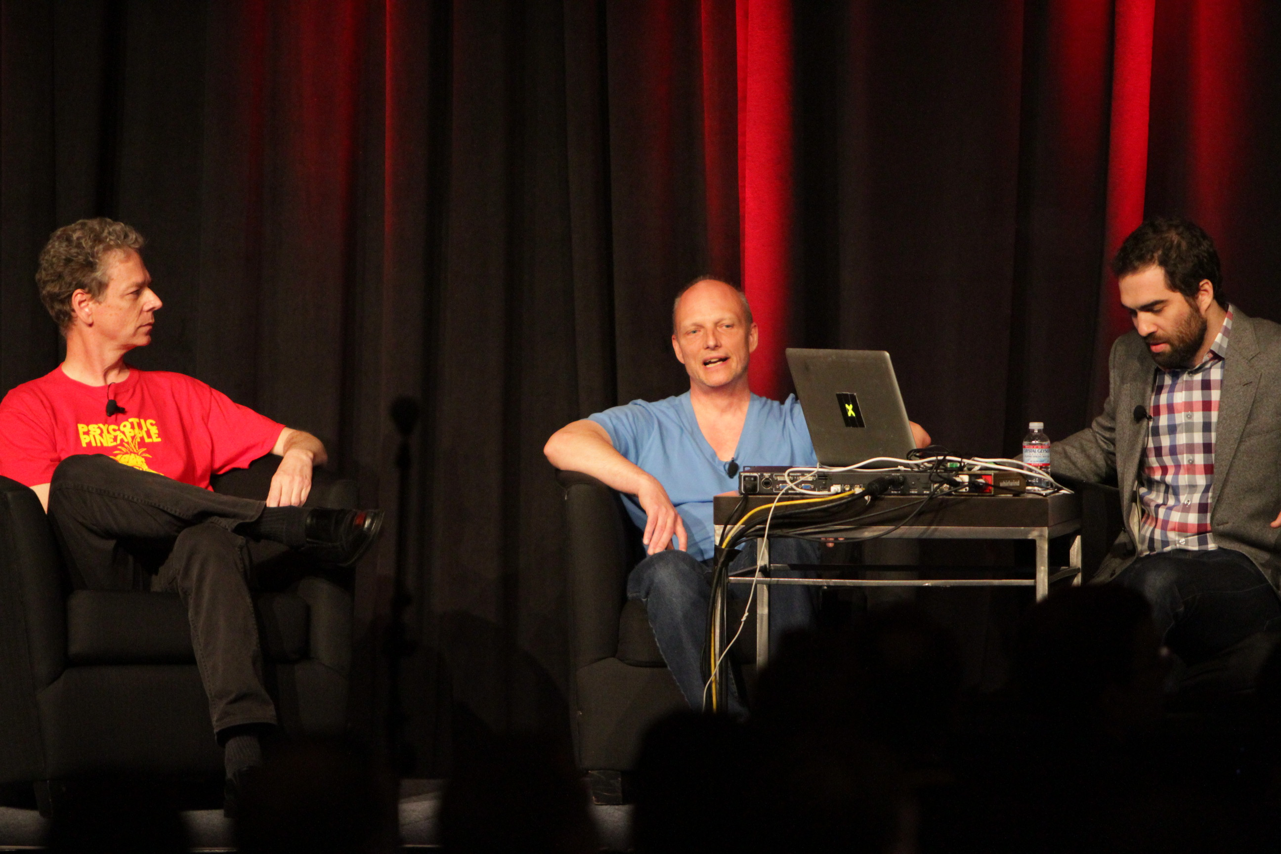 Classic Game Postmortem: Star Control Paul Reiche III | Co-Founder and Studio Head, Toys For Bob Fred Ford | Co-Founder and CTO, Toys For Bob Rob Dubbin | Writer and Developer, Independent Location: Room 135, North Hall Date: Wednesday, March 4 Time: 3:30pm - 4:30pm